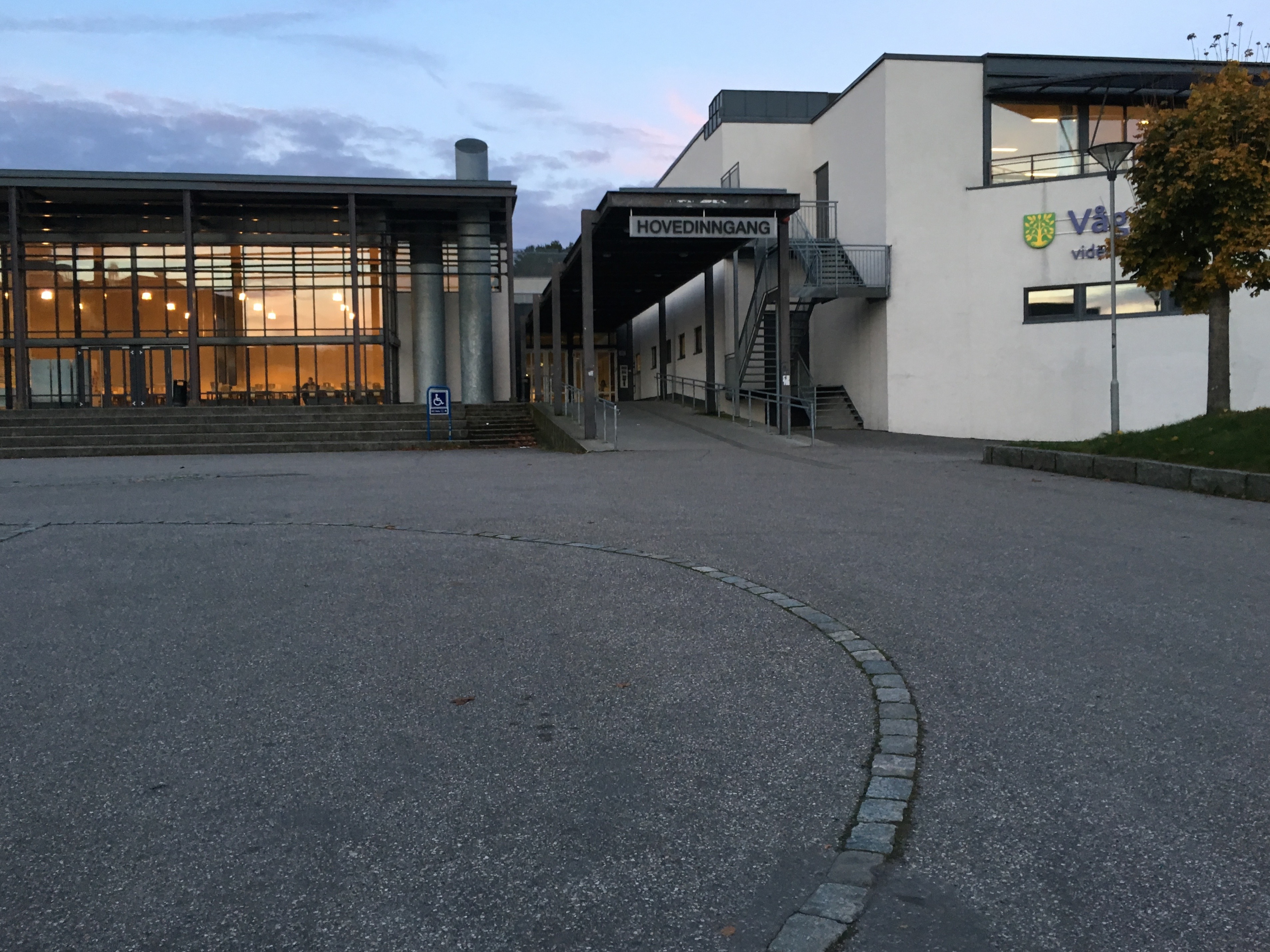 Vågsbygd High School, Kristiansand